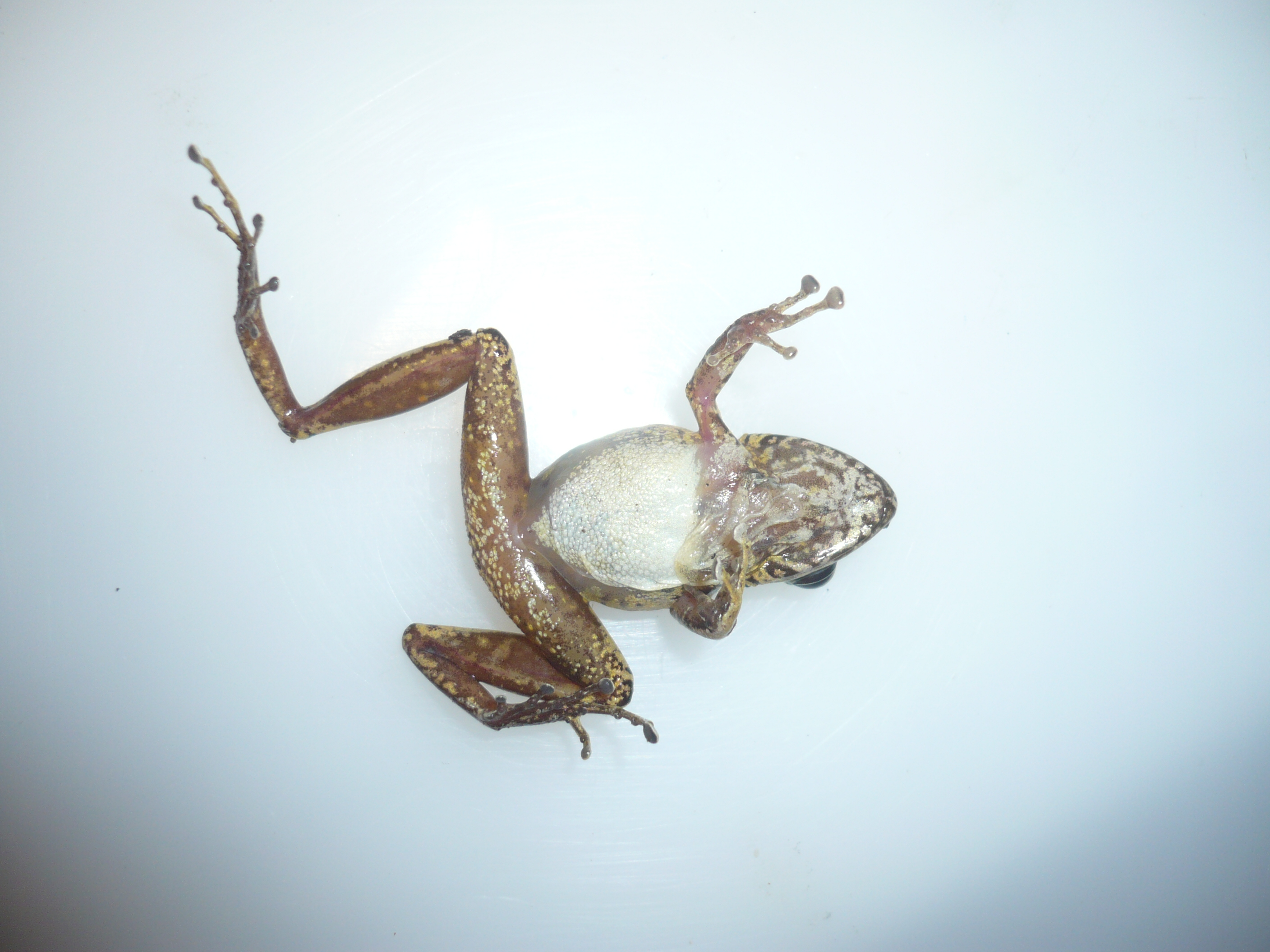 Pristimantis reichlei in Madre de Dios (Peru). Breeding male.